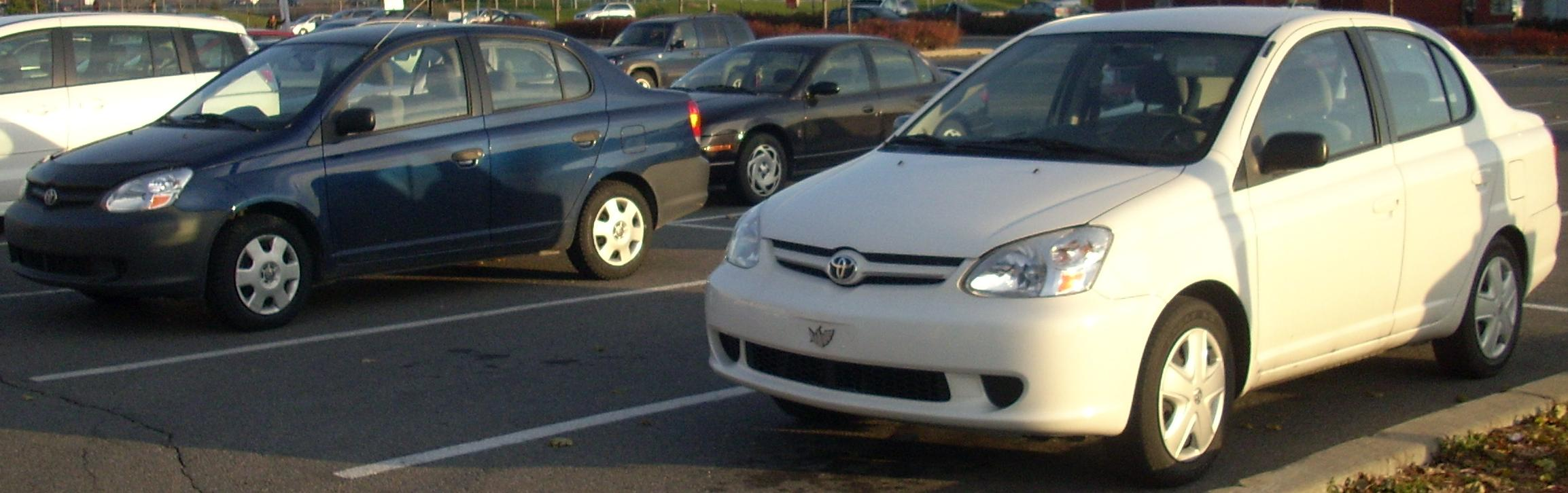 2003-2005 Toyota Echos photographed in Montreal, Quebec, Canada.